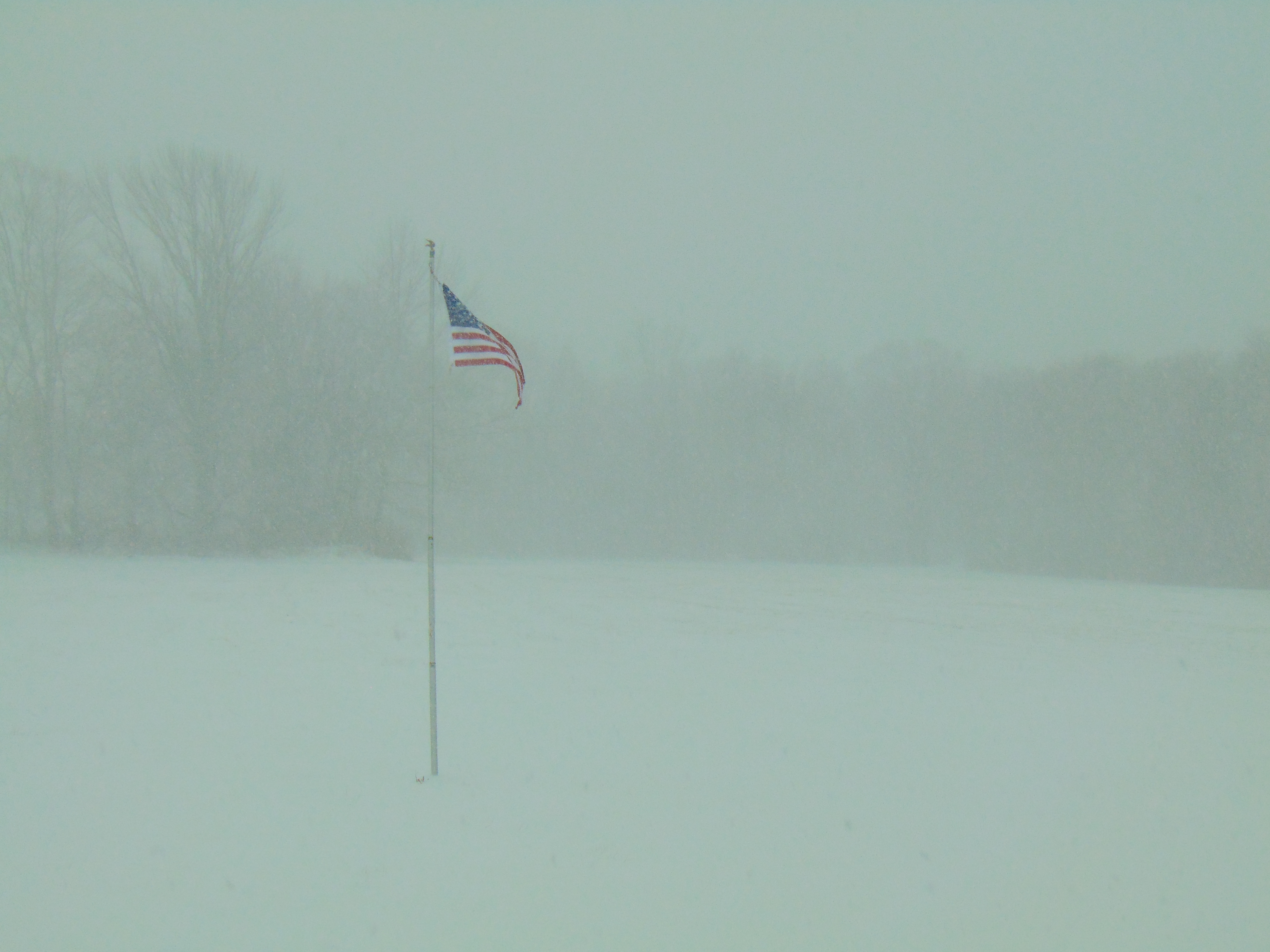 A photo of the blizzard hitting Connecticut